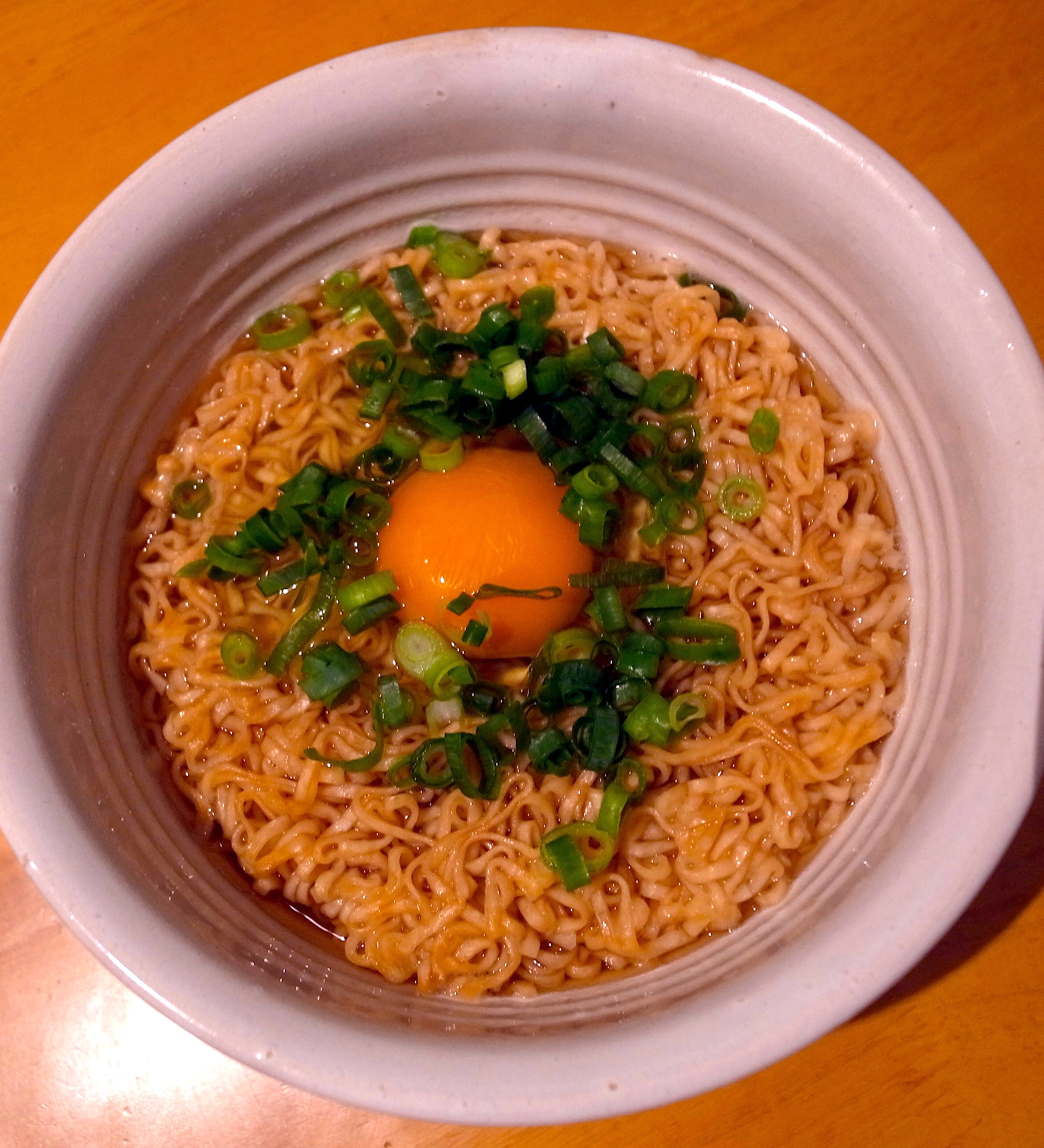 Nissin Chicken Ramen in a bowl, with serving suggestion of chives and raw egg in centre